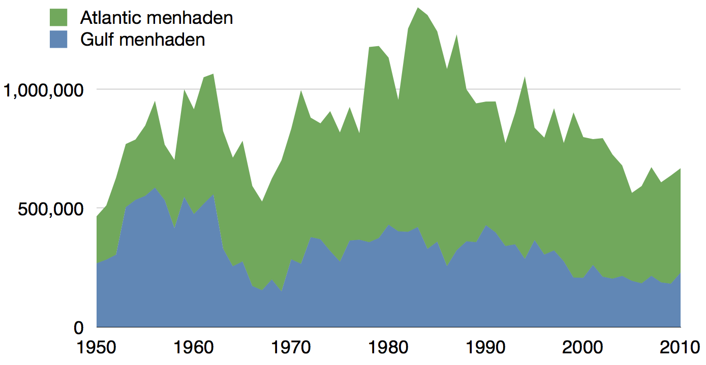 Global capture of all menhaden species in millions of tonnes, 1950–2010, as reported by the FAO. Based on data sourced from the relevant FAO Species Fact Sheets